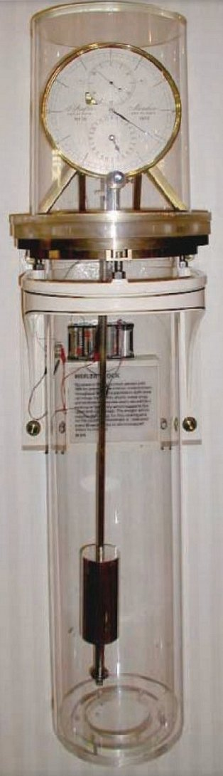 Photo of astronomical regulator clock made by German firm Clemens Riefler, which was the primary US time standard from 1904 to 1929, in the NIST Museum in Gaithersburg, MD. About 54 inches (134 cm) long. The pendulum, which swings once per second, is made of Invar and is temperature compensated by the small length of aluminum seen under the weight. In order to prevent changes in atmospheric pressure from affecting the swing of the pendulum, the clock is housed in a glass pressure vessel, which is kept at a constant pressure. The batteries seen on a shelf behind the clock power an electric remontoire in the movement, which winds the clock every 30 seconds. The half-moon shaped hole in the face on the lower left edge of the upper subdial allows the operation of the remontoire to be seen. The gear train is made as simply as possible, with separate dials for hours (bottom subdial), minutes (top subdial), and seconds (large dial). It was accurate to 15 milliseconds per day, one of the most accurate all-mechanical clocks ever made. Alterations to image: cropped out caption.